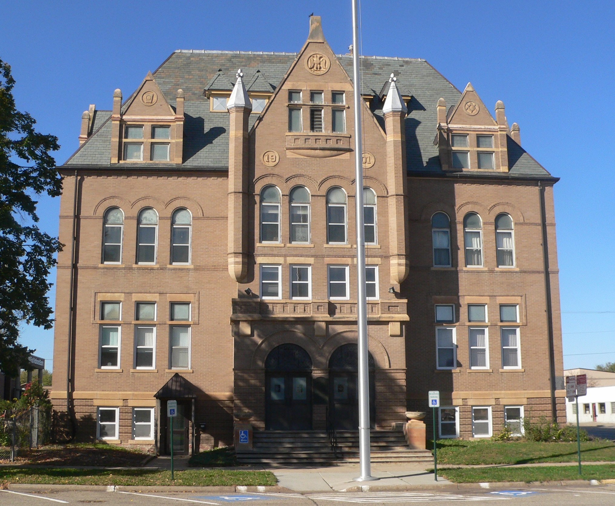 Scottish Rite Masonic Center, located at southwest corner of 4th and Cedar Streets in Yankton, South Dakota; seen from the east, across Cedar.